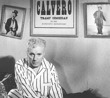 Cropped publicity still for the 1952 film Limelight